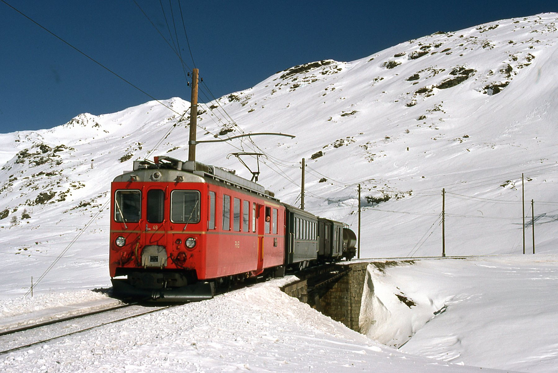 RhB ABe 4/4 II No. 49 on the Bernina line.